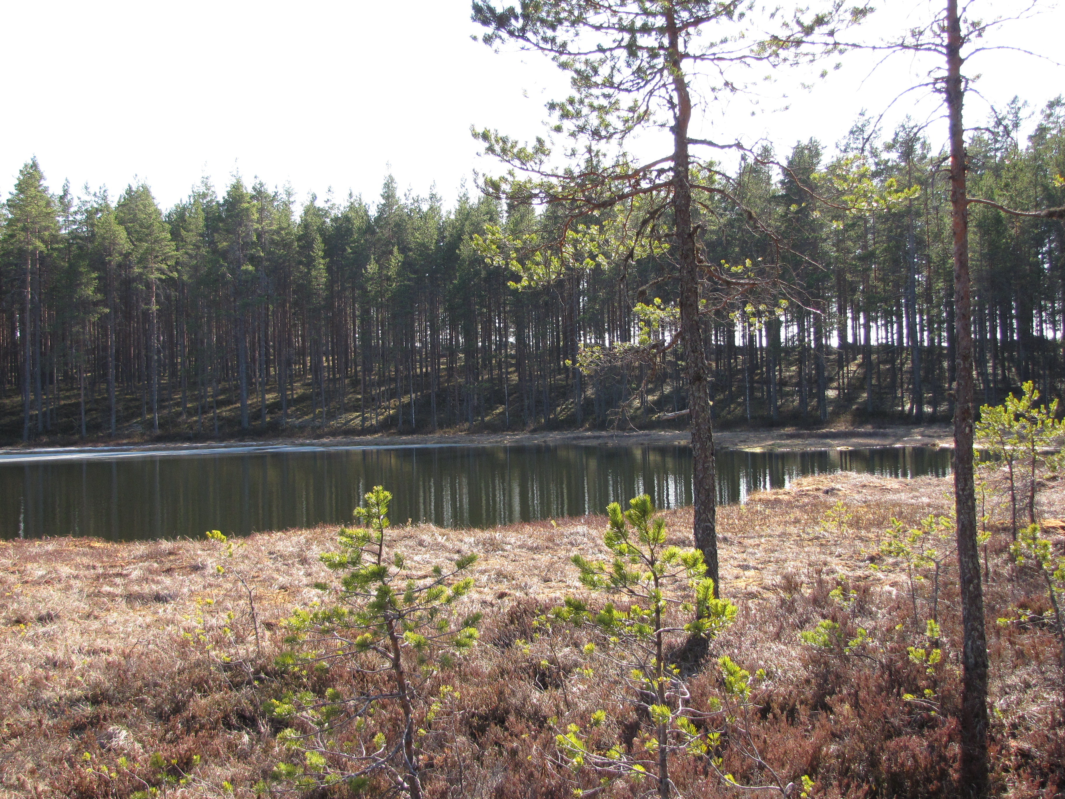 A kettle pond "Lapinkaivo" in Nummijärvi village, Kauhajoki, Finland.